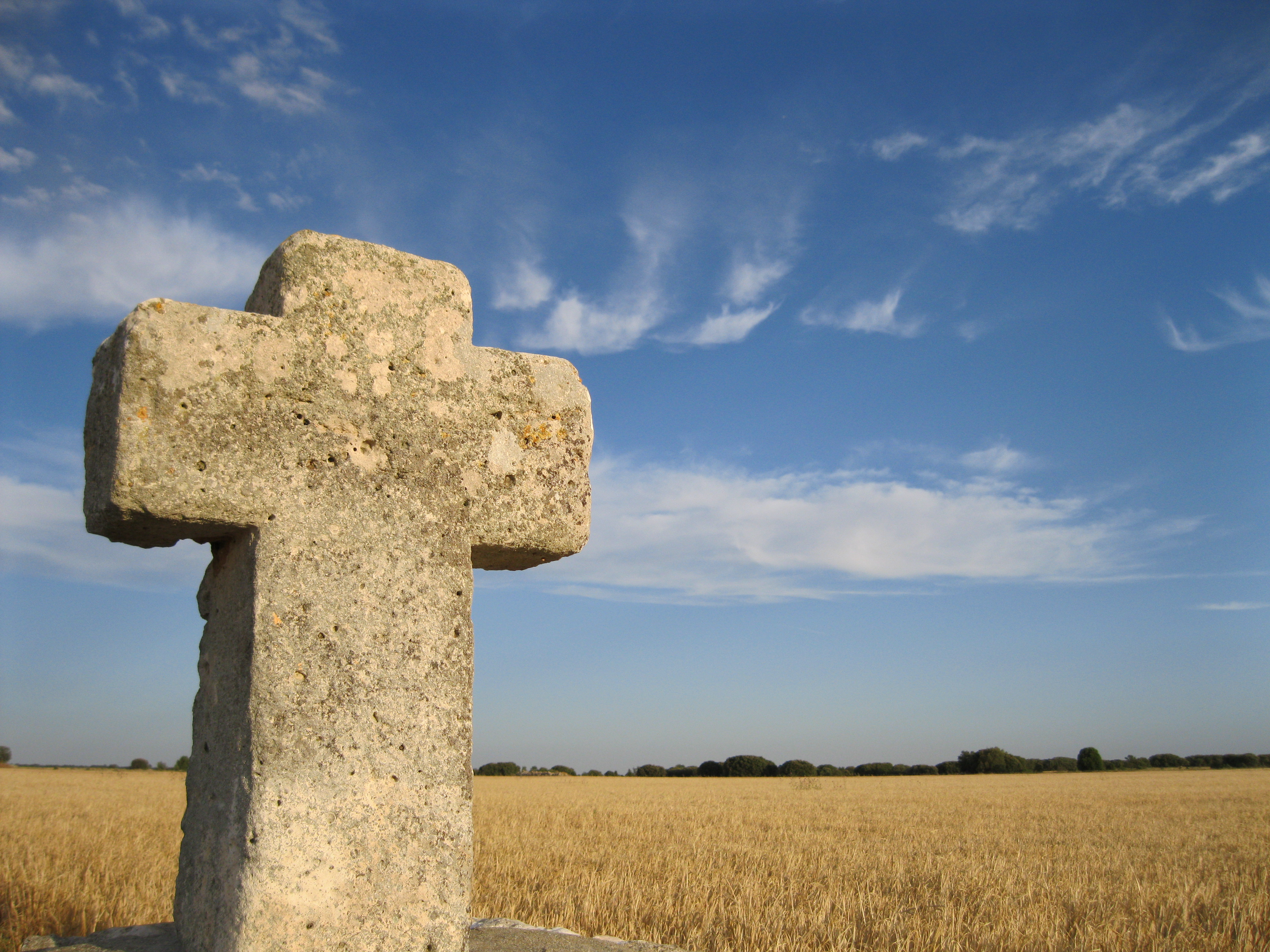 Cruz de la muñeca